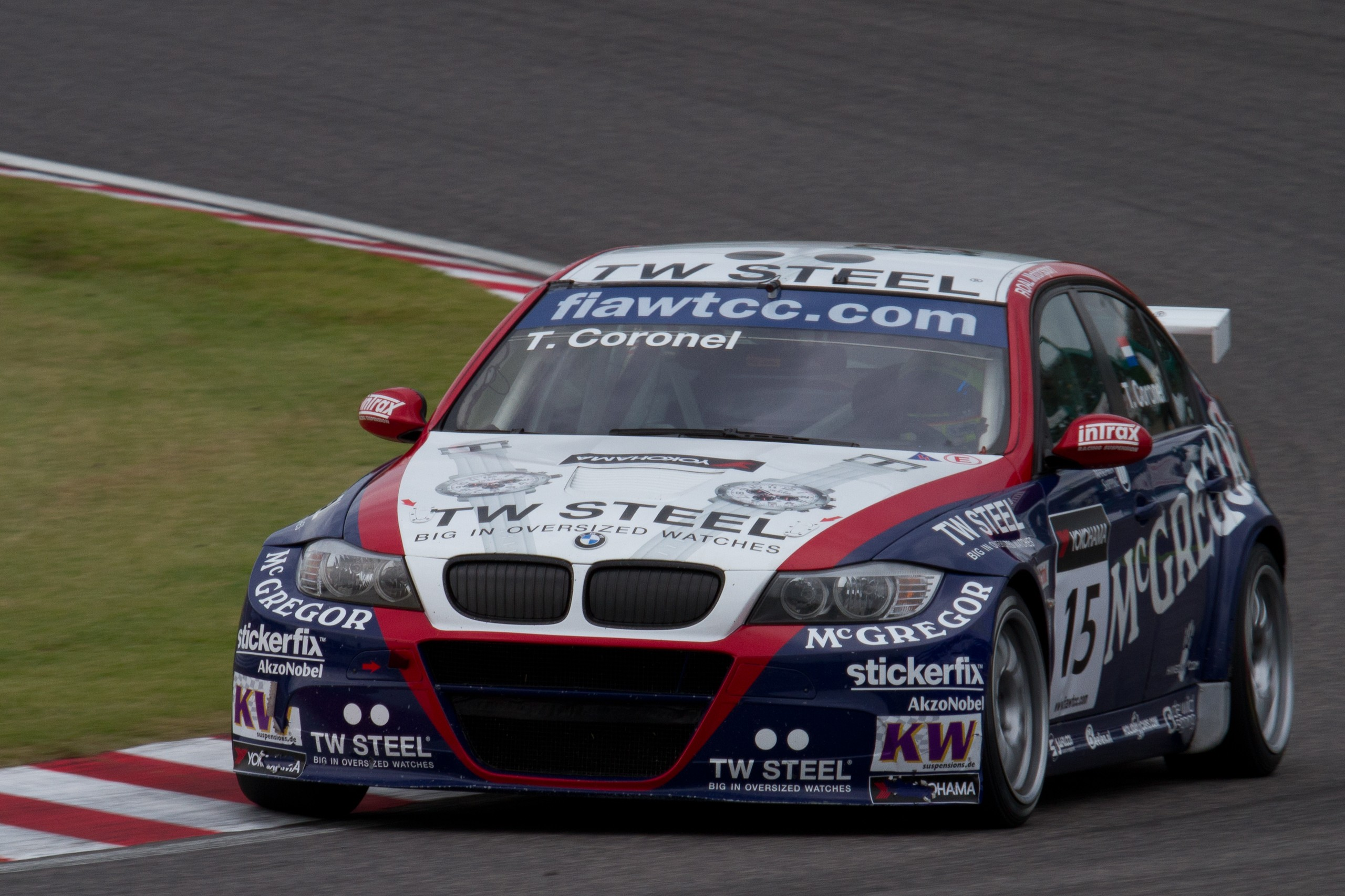 World Touring Car Championship 2011 Race of Japan: Tom Coronel (ROAL Motorsport) during the qualify session on Saturday.